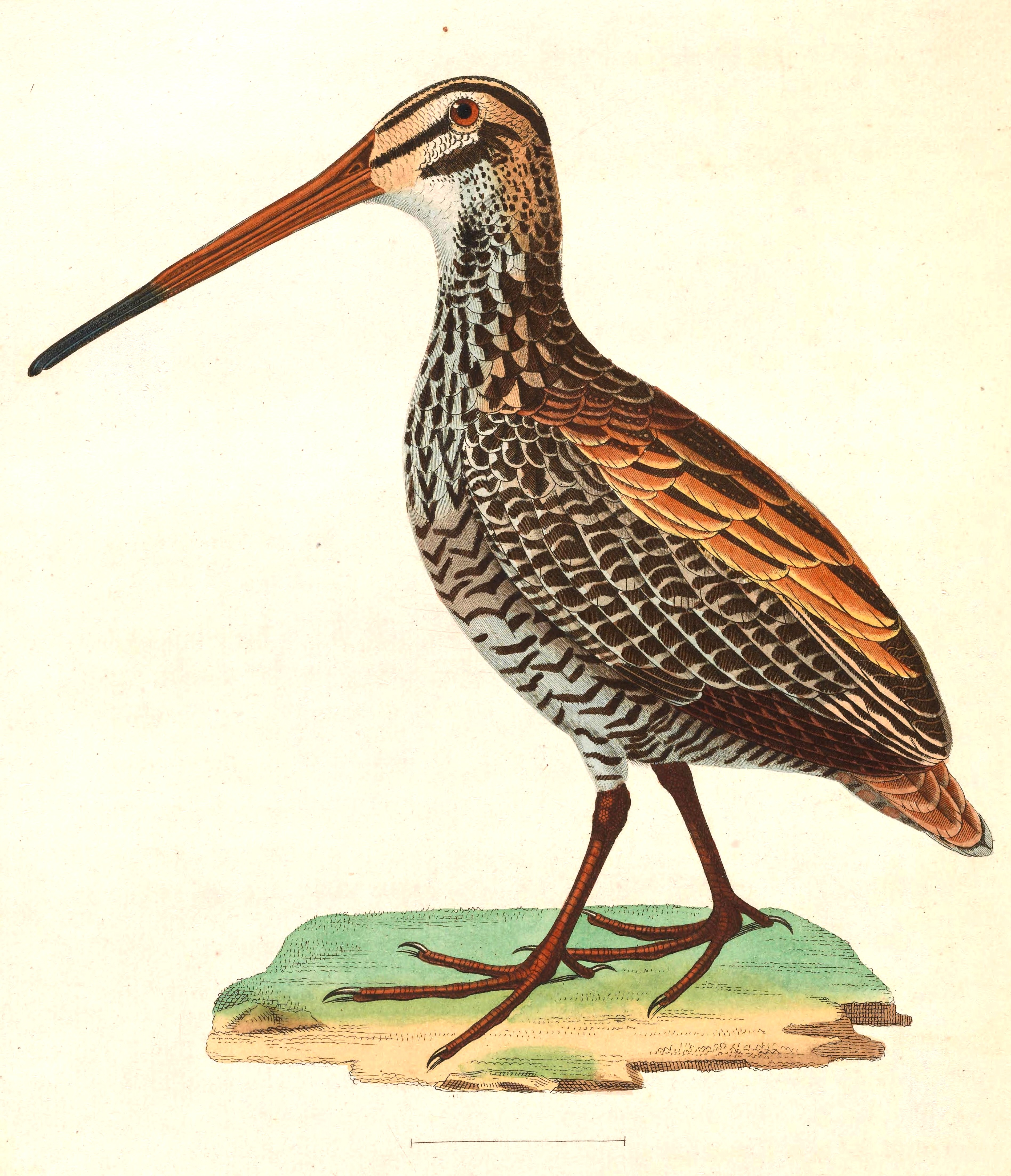 « Scolopax gigantea » = Gallinago undulata gigantea (Subspecies of Giant Snipe) - adult male